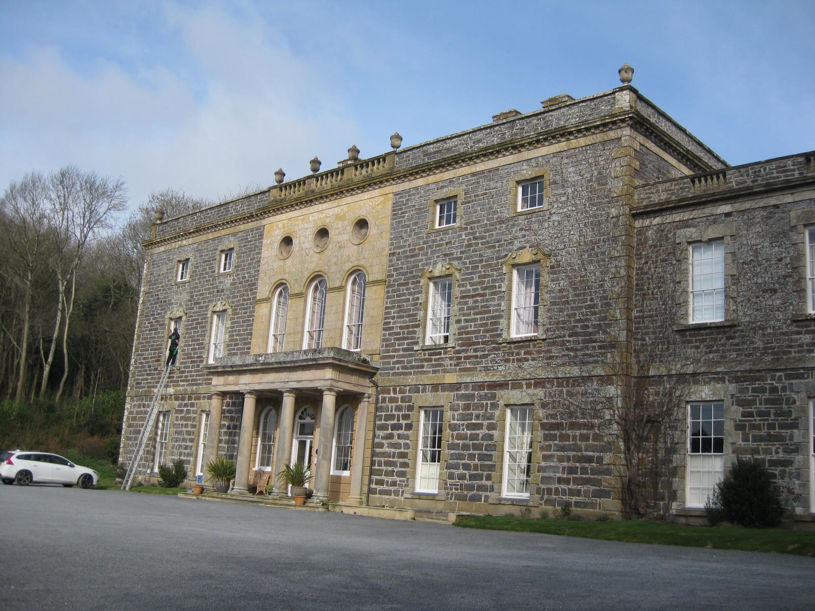 Frontage of Nanteos, 2 1/2 miles SE of Aberystwyth 1737/1757. The portico is 19th century and by the Shrewsbury Architect, Edward Haycock.